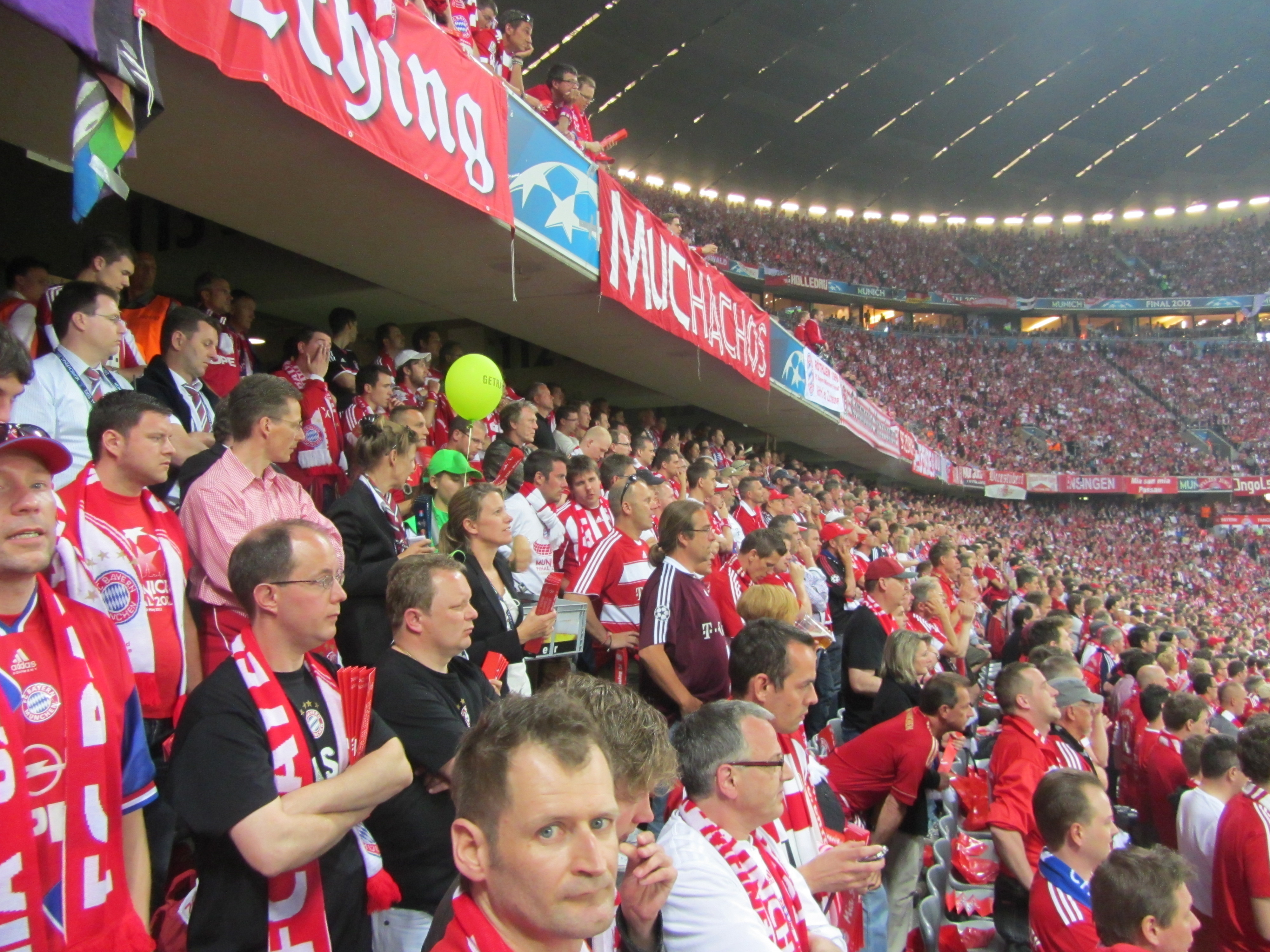 Bayern München - Chelsea FC 19.05.2012 Champions League Finale 2012 / "Finale Dahoam" Südkurve Champions League Final 2012 South stand